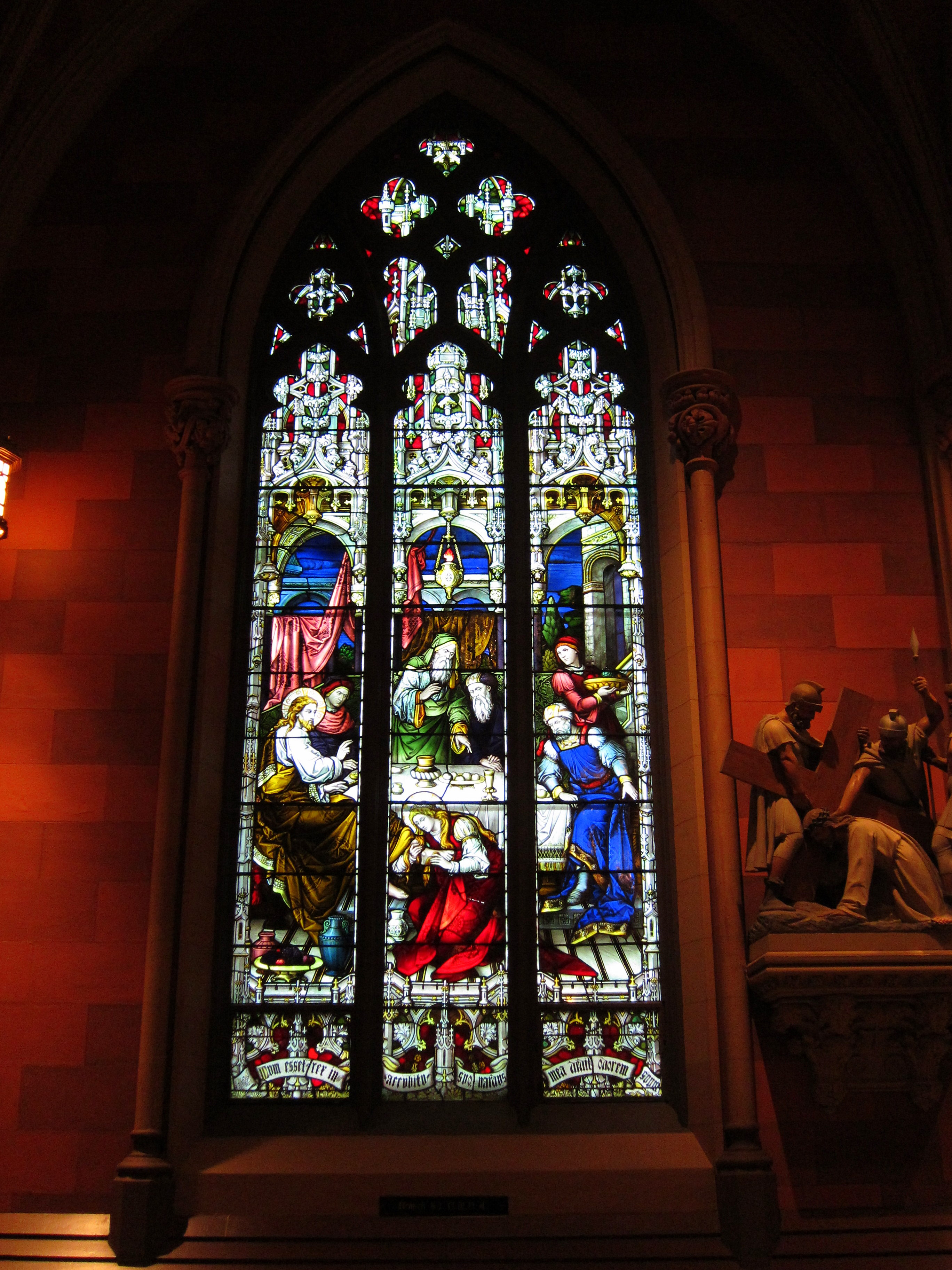 A Disciple washes Christ’s feet Illustration: Luke 7:38 Text: Song of Solomon 1:12 Latin: Dum esset rex in accubitu suo, nardus mea dedit odorem suum.